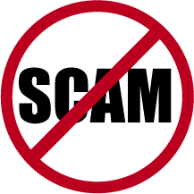 KOLKATA WEST INTERNATIONAL CITY SCAM